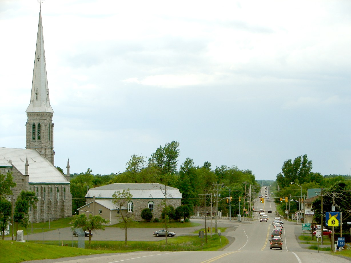 St. Andrews West (South Stormont municipality), Ontario, Canada